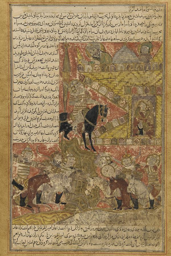 Folio from a Tarikhnama (Book of history) by Balami